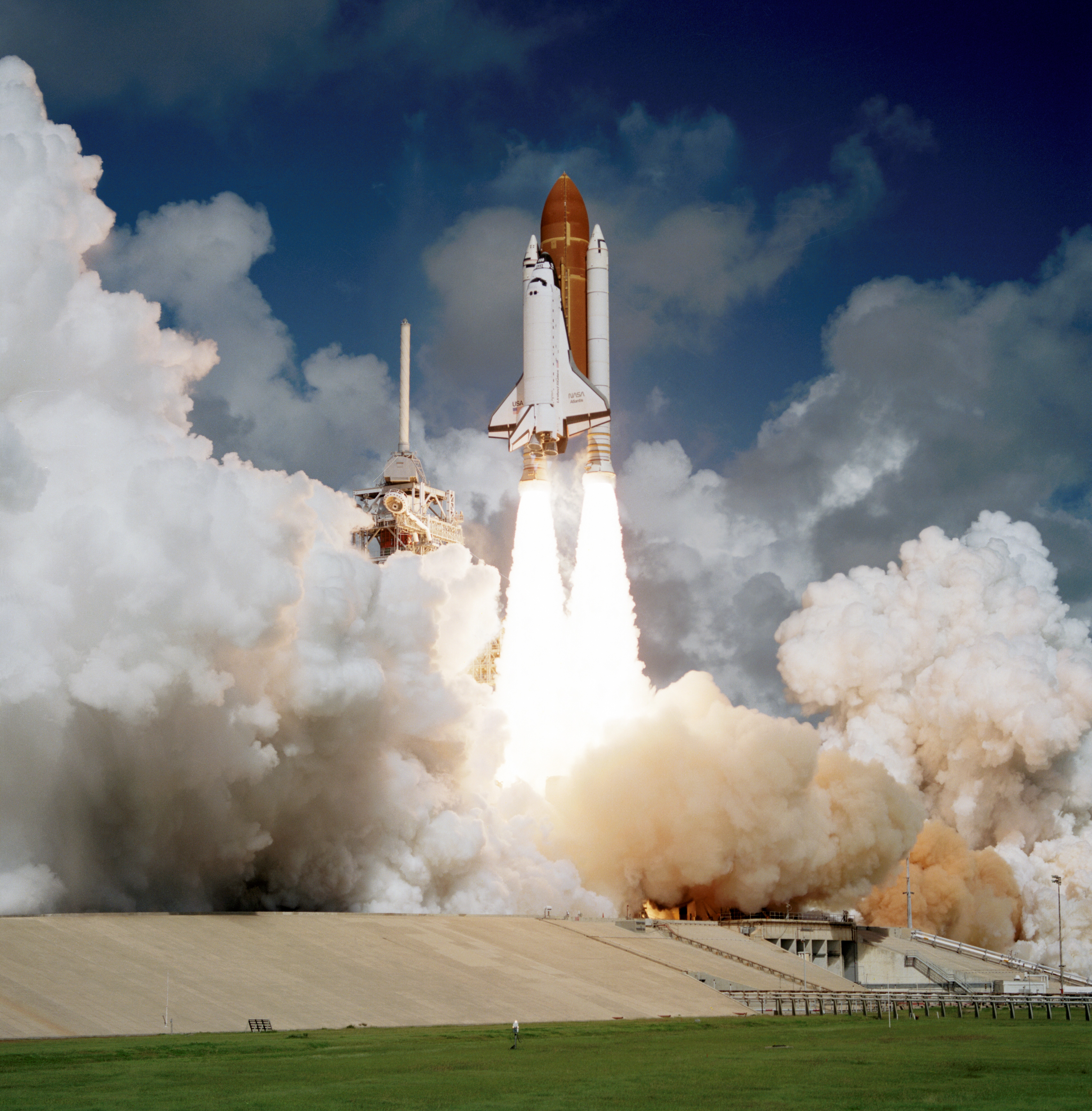 Liftoff of first flight of Atlantis and the STS 51-J mission.